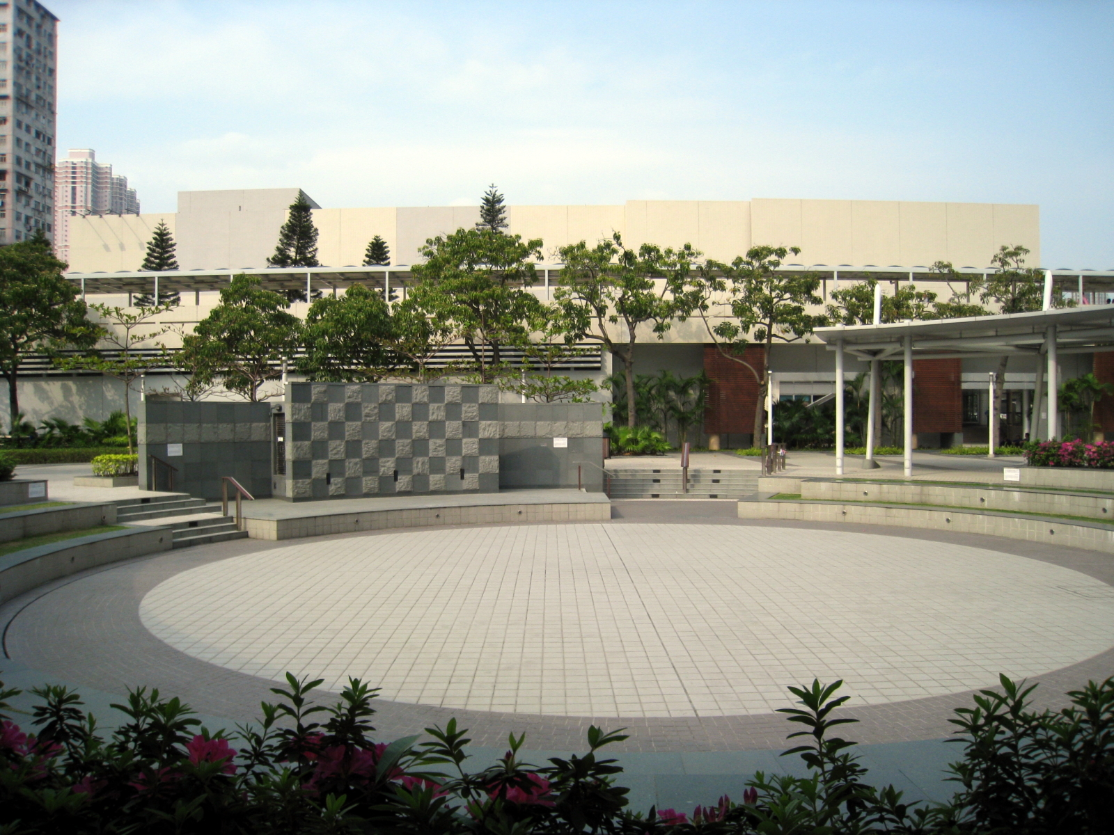 HK Tsuen Wan Town Hall Outside